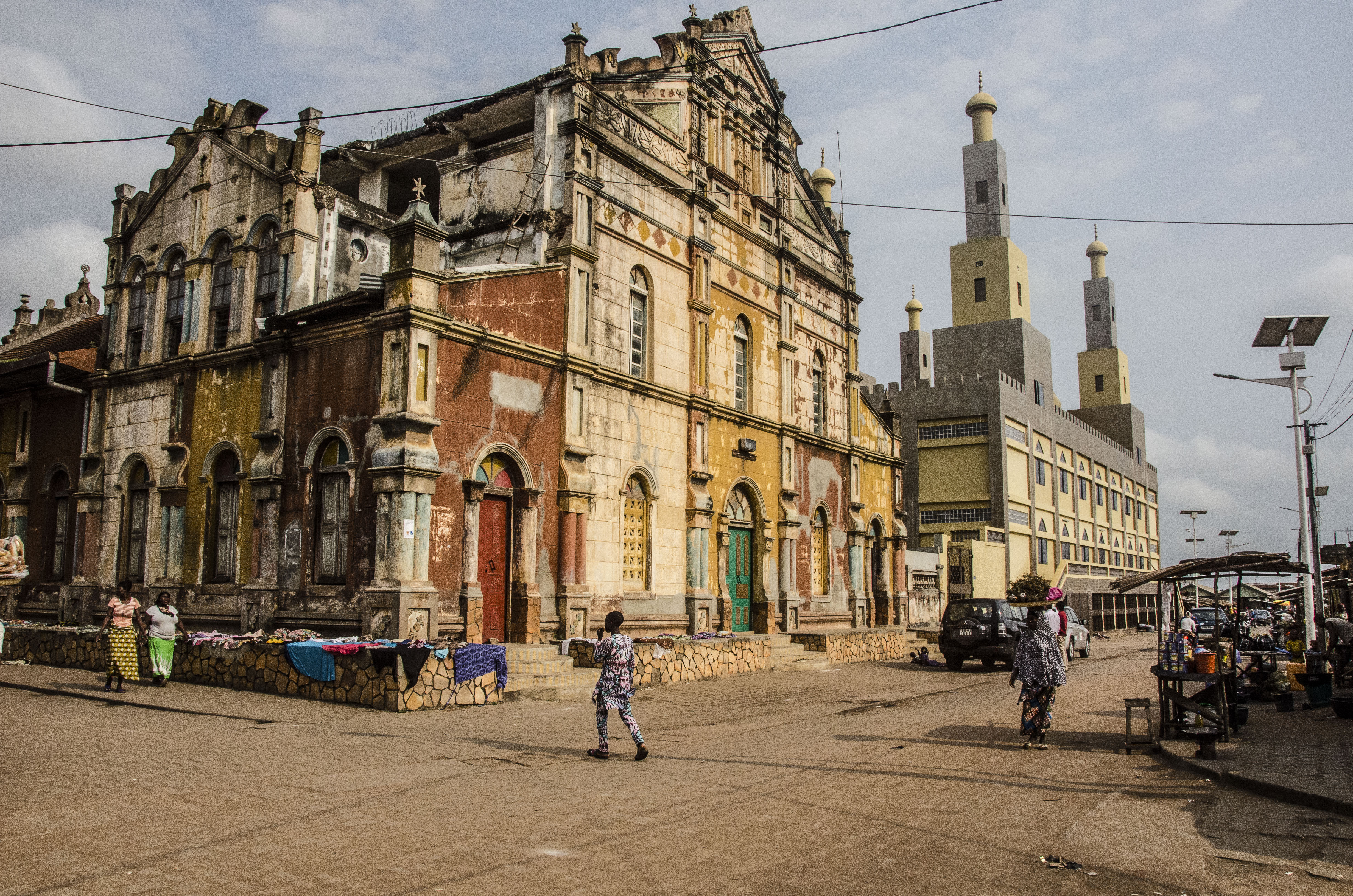 Inspired from the afro brazilian architecture, this mosquee started in 1910 and was completed in 1935.